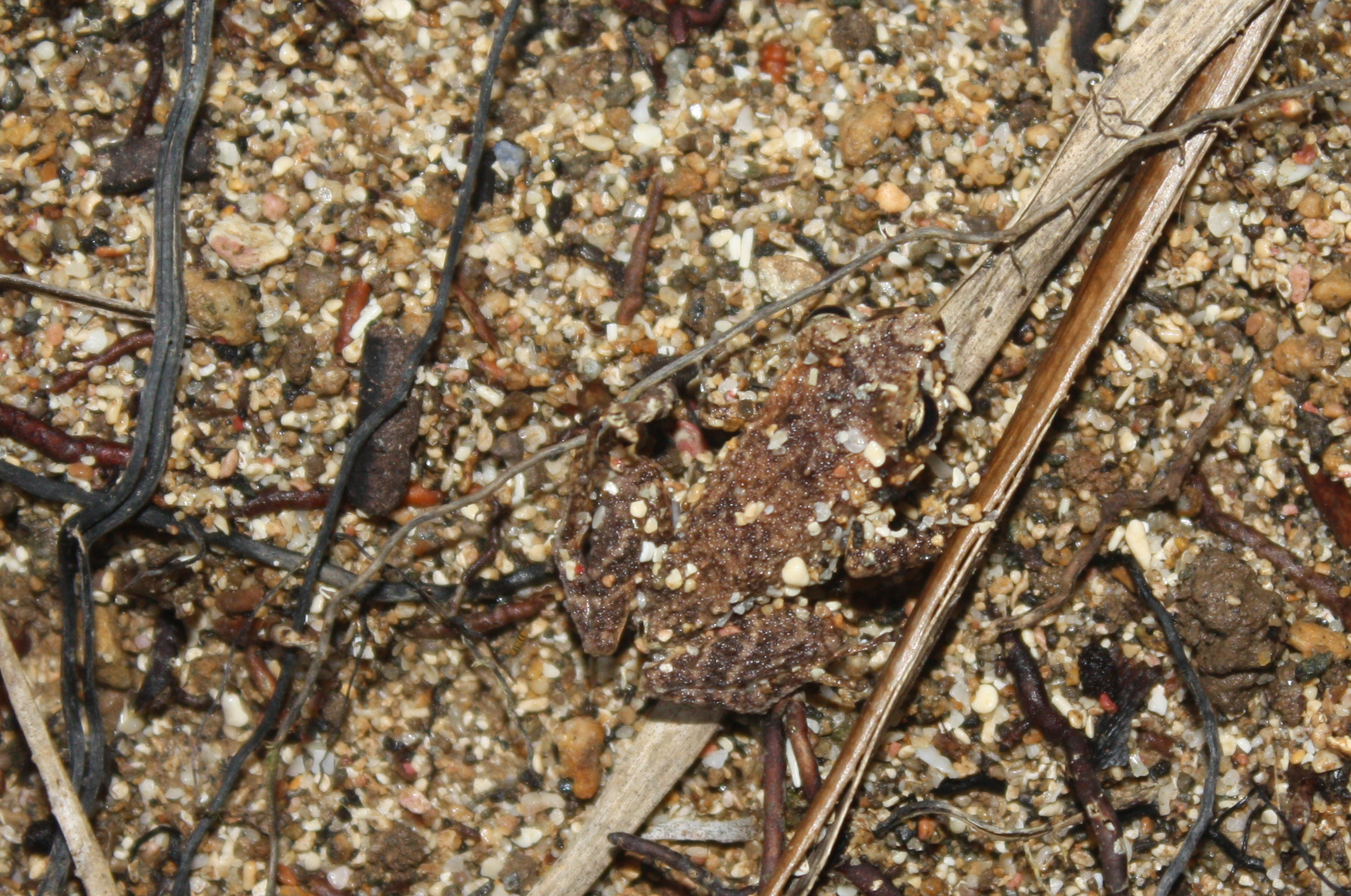 Martinique Robber Frog (Eleutherodactylus martinicensis) in the sand. Pointe Baptiste Beach, Calibishie, Dominica.